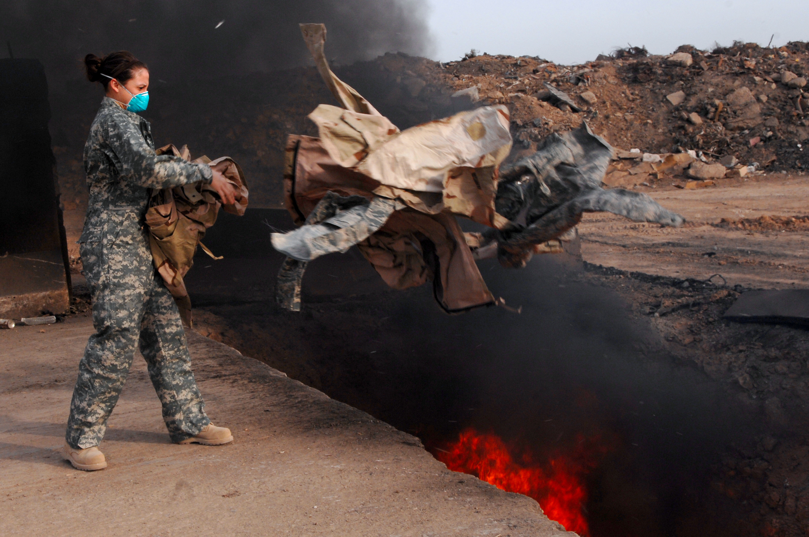 Senior Airman Frances Gavalis, 332nd Expeditionary Logistics Readiness Squadron equipment manager, tosses unserviceable uniform items into a burn pit, March 10. Military uniform items turned in must be burned to ensure they cannot be used by opposing forces. Airman Gavalis is deployed from Kirtland Air Force Base, N.M. (U.S. Air Force photo/Senior Airman Julianne Showalter)